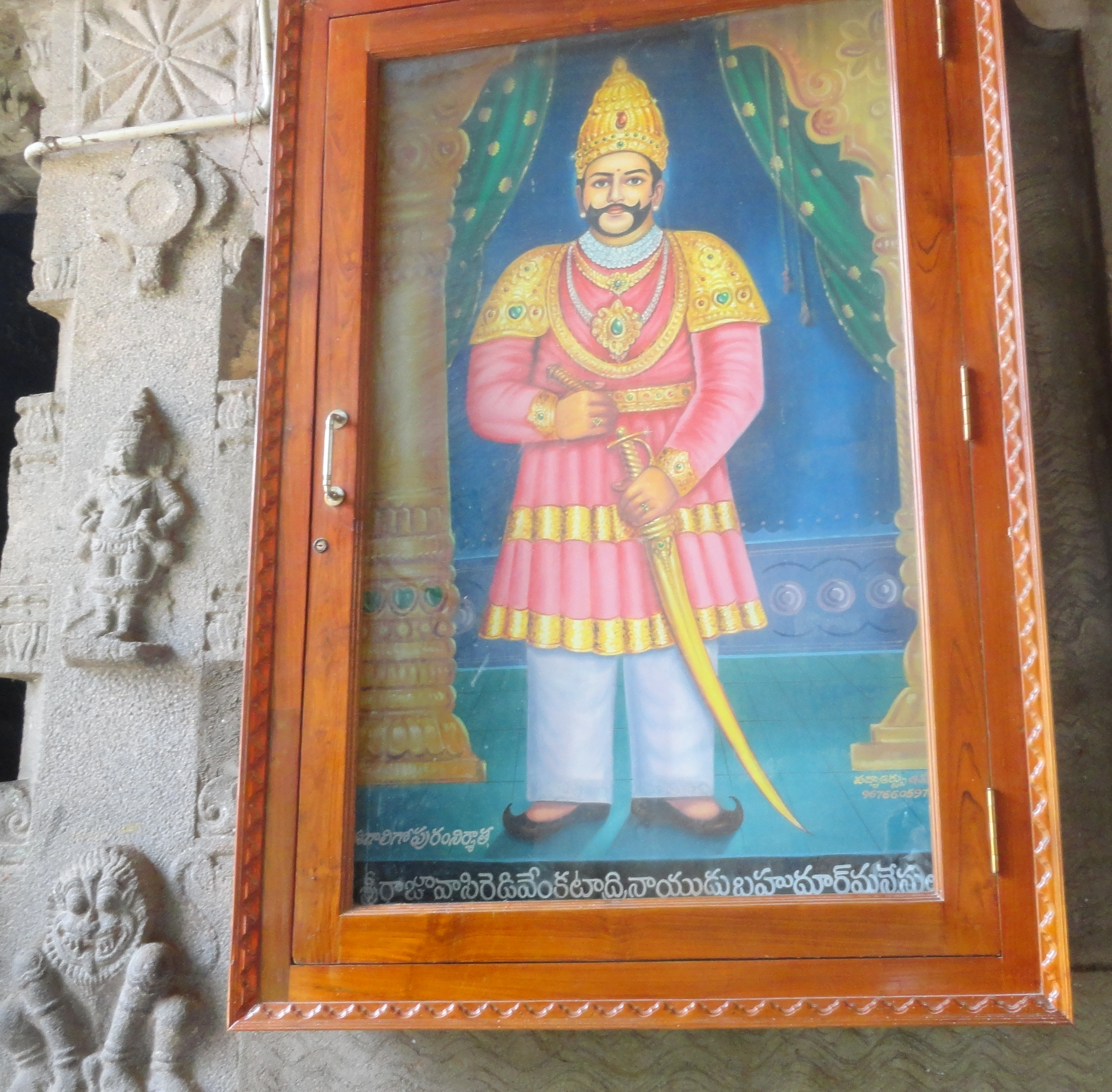 రాజా వెంకటాద్రి నాయుడు. మంగళగిరి గుడి గోపురములోని చిత్రము. మంగళగిరి ఆలయ నిర్మాత. Raaja veMkaTaadri naidu. king. who build the temple at Mangalagiri